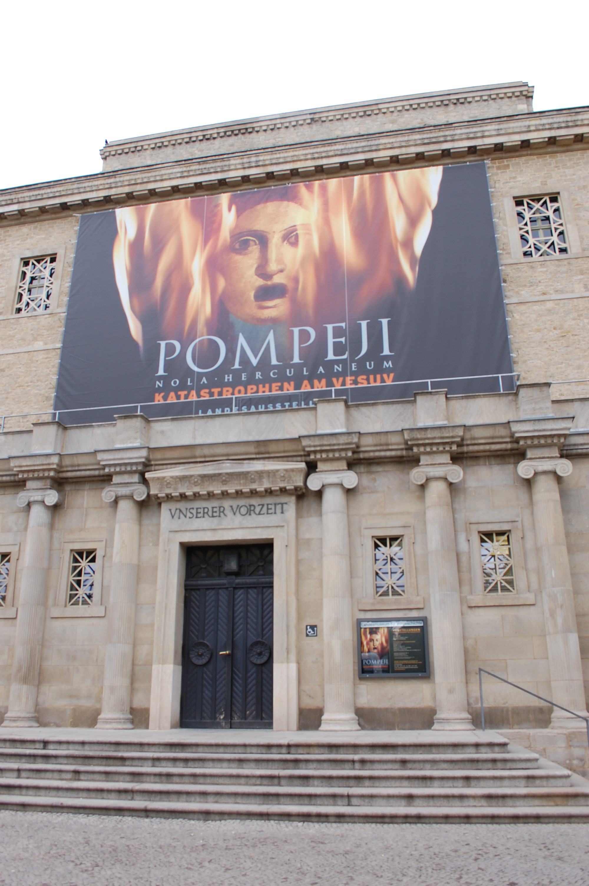 State Museum of Prehistory Saxony-Anhalt, front side, State Exhibition "Pompeji-Nola - Herculaneum. Disasters at Mount Vesuvius"